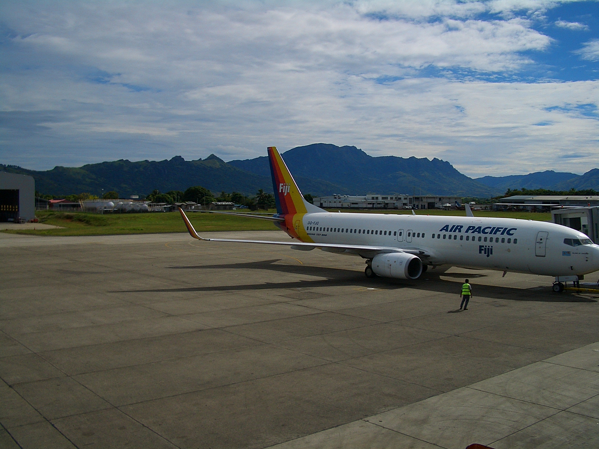 An Air Pacific plane in Nadi Airport